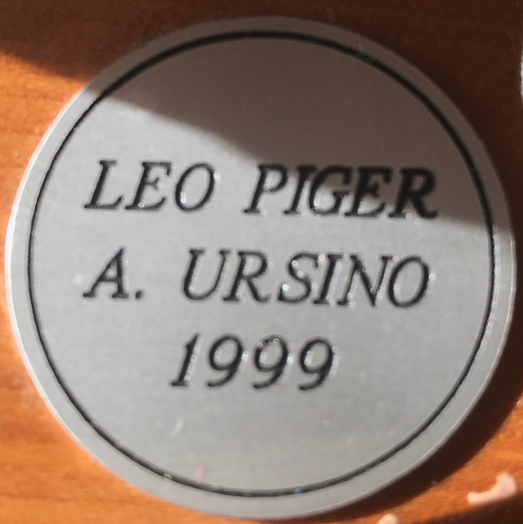 Patch on the Trophy